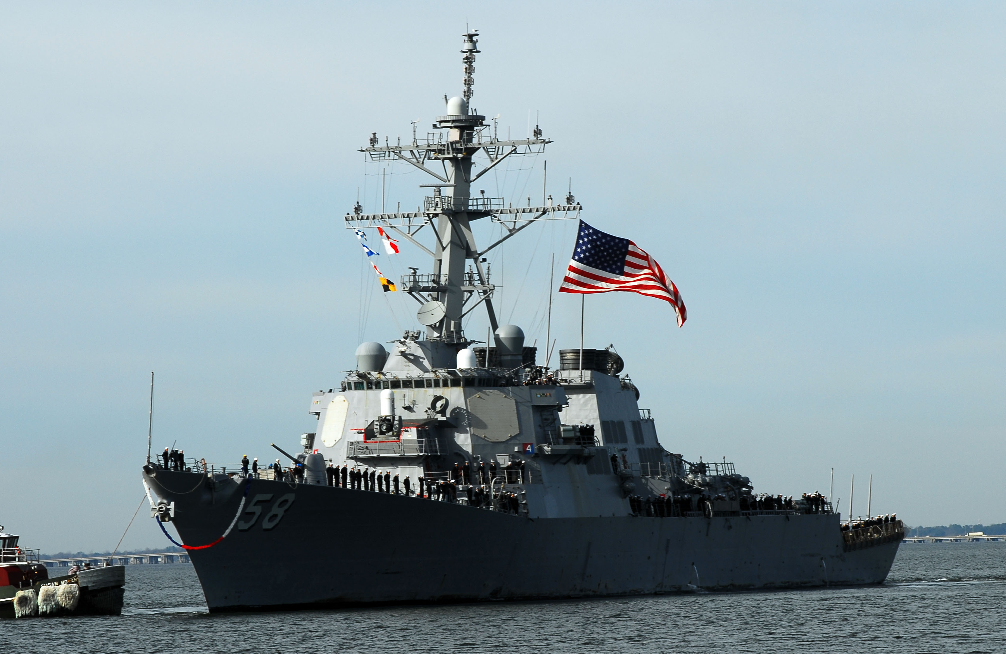 NORFOLK (Feb. 16, 2011) The guided-missile destroyer USS Laboon (DDG 58) arrives at Naval Station Norfolk after completing a six-month deployment. Laboon deployed as part of a Standing Naval Maritime Group, a multi-national maritime force that trains and operates together and is available to NATO. (U.S. Navy photo by Mass Communication Specialist 2nd Class Josue L. Escobosa/Released)